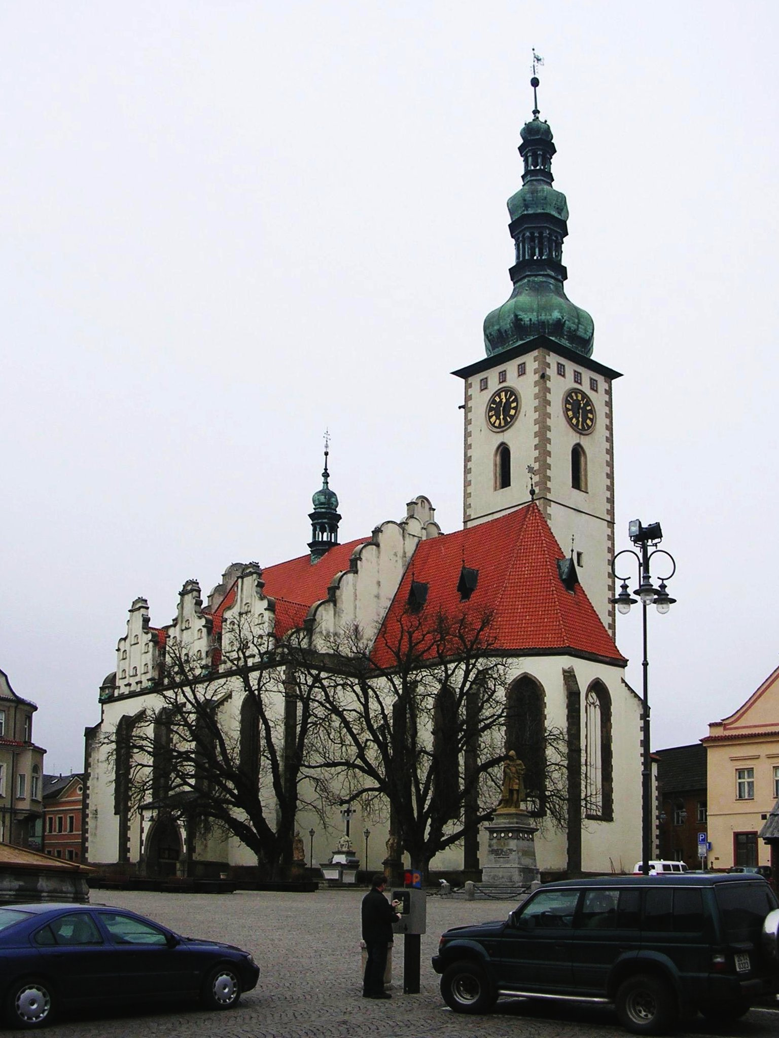 Tábor, the Czech Republic. Church of the Transfiguration in Žižka Square.